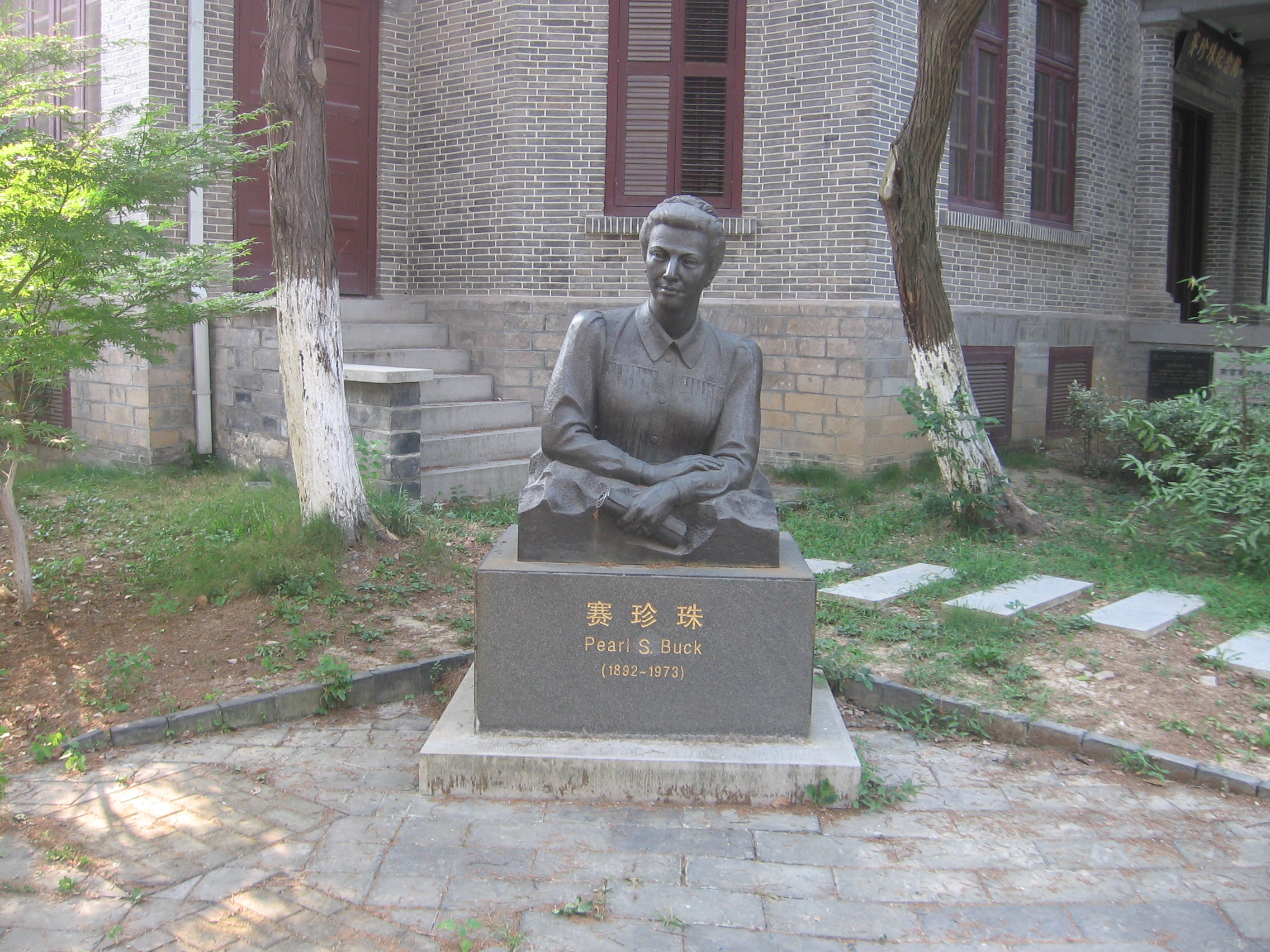 Status of Pearl S. Buck, laureate of Nobel Prize in literature 1938, at Nanjing University, Nanjing, China.